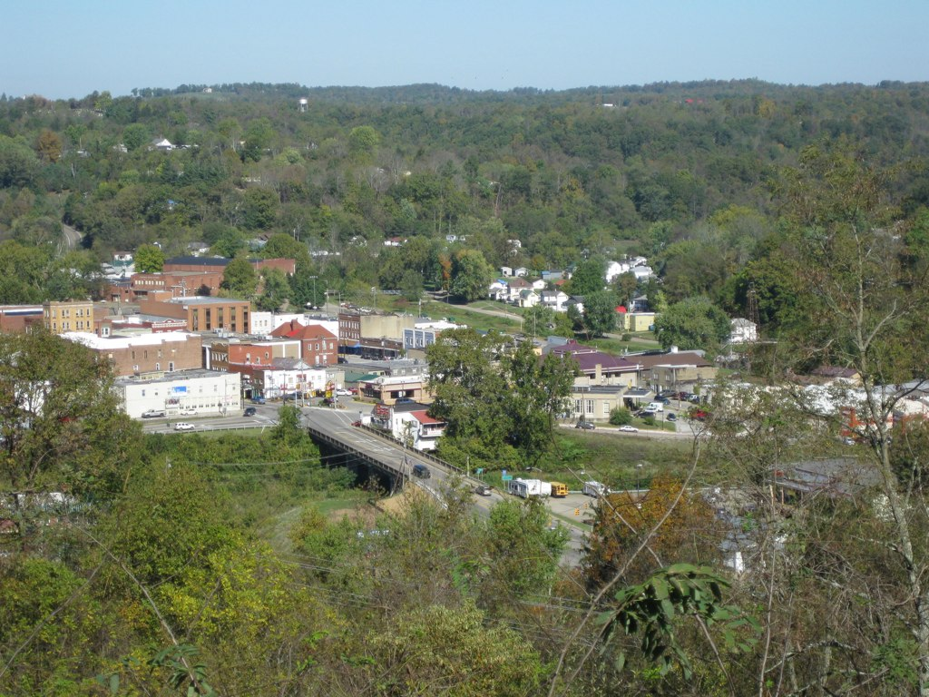 View of Spencer, West Virginia.